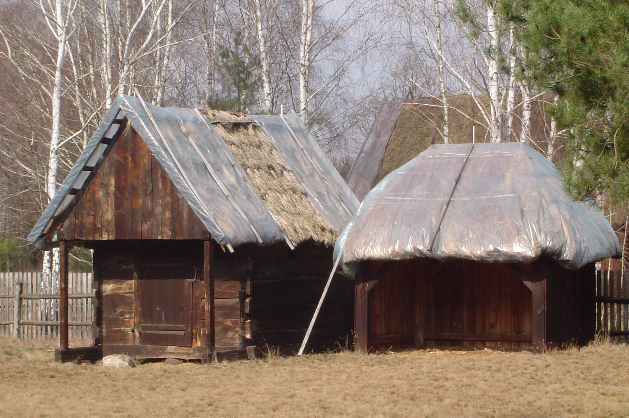 open air museum in Granica